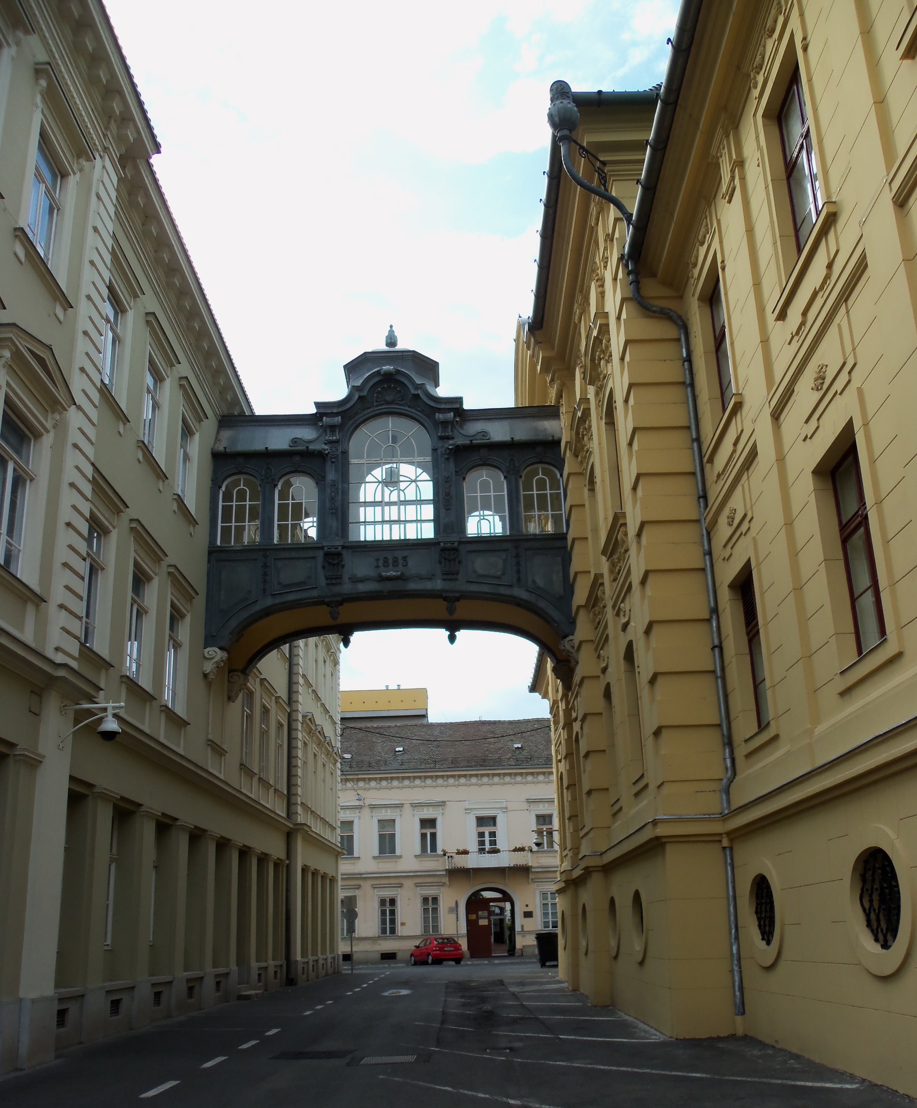 The "Bridge of Sighs" of Szeged town hall, Hungary